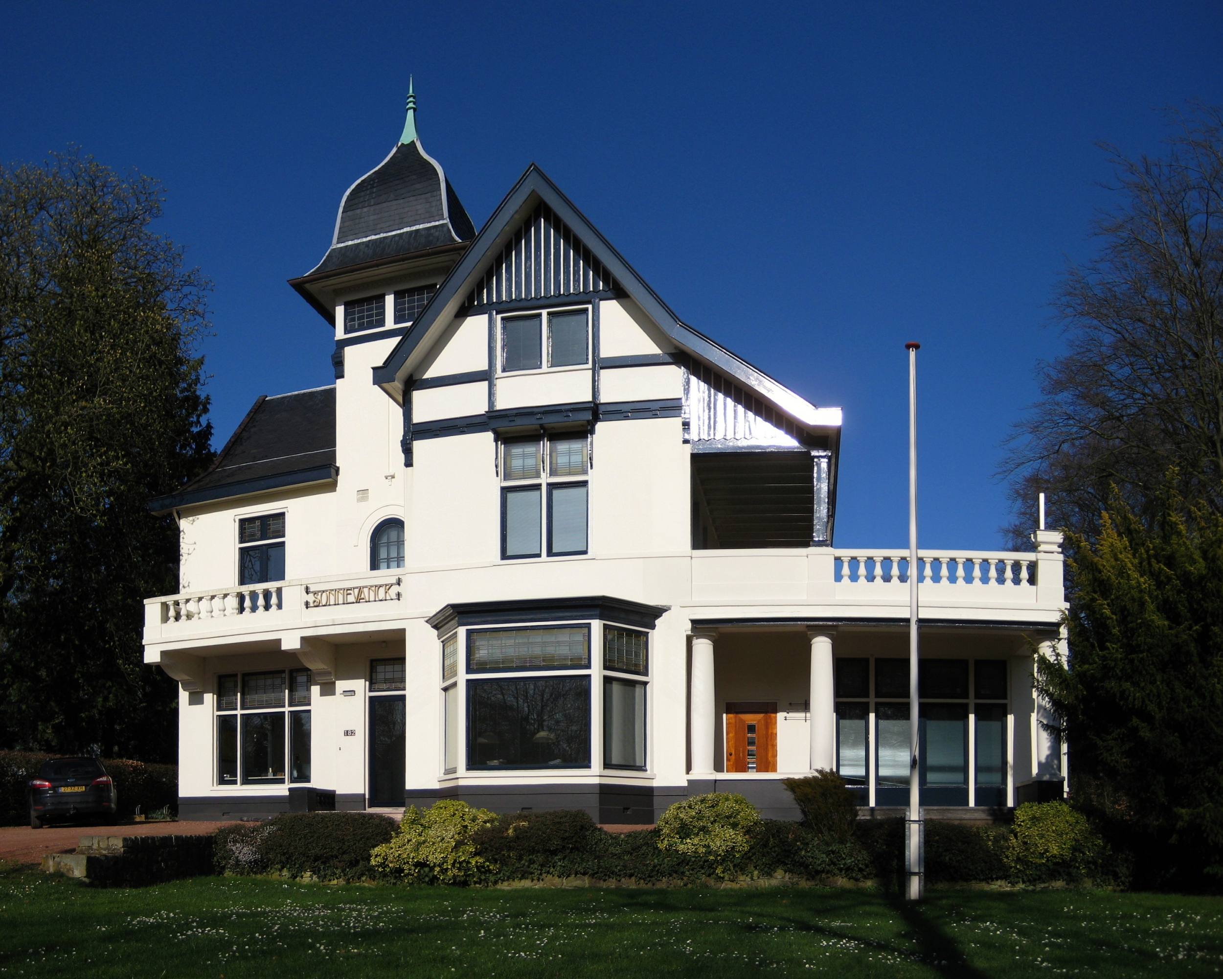 Villa "Sonnevanck" (± 1900) in the Dutch city of Groningen.